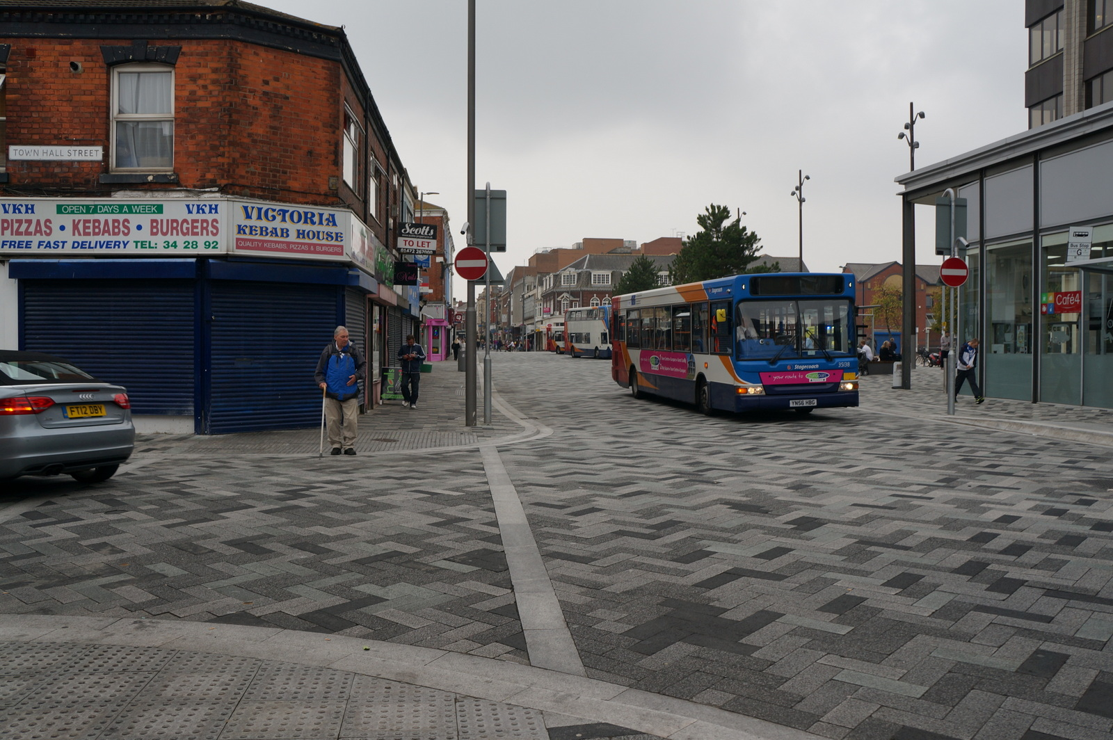 Victoria Street West at Town Hall Street, Grimsby